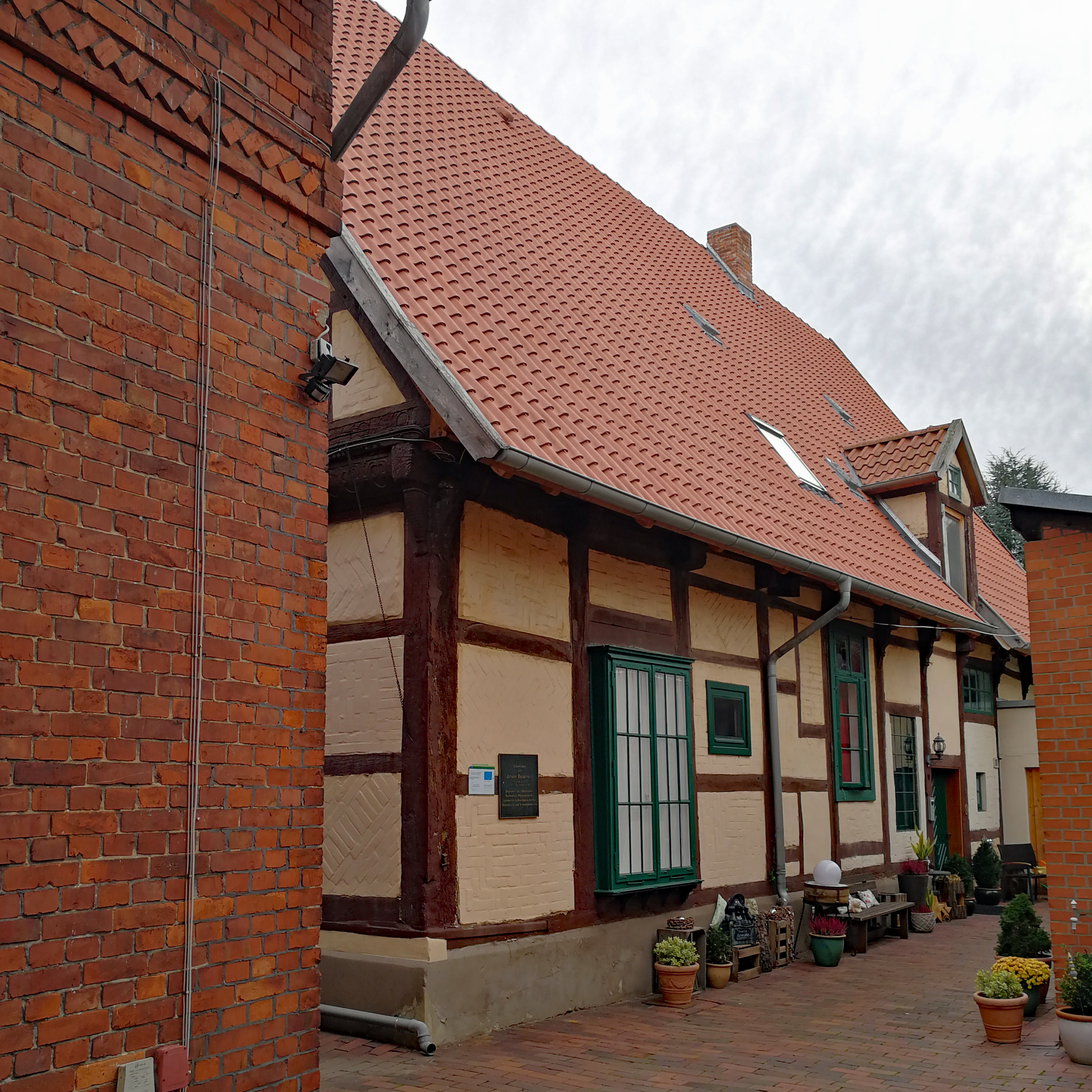 Hoya, Beckmann-Haus, Lange straße 5